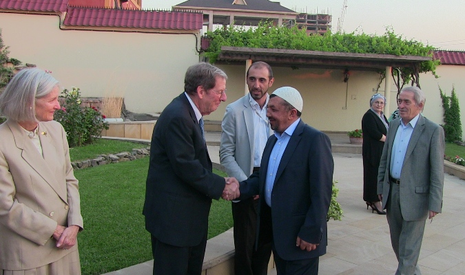 ABŞ səfirliyinin açdığı iftar süfrəsi zamanı Riçard Morninqstar və Hacı Salman Musayev